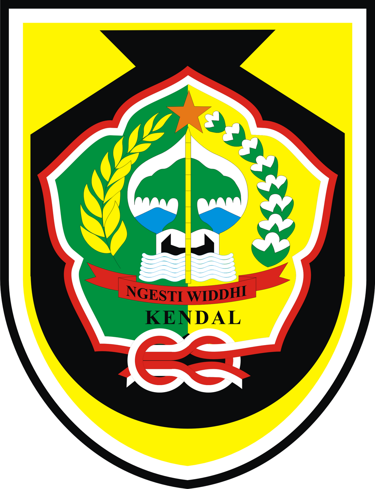 Former Logo of Kendal Regency